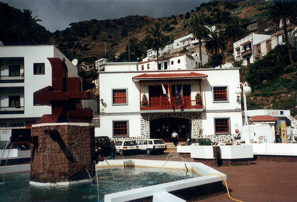 Townhall of Vallehermoso, La Gomera